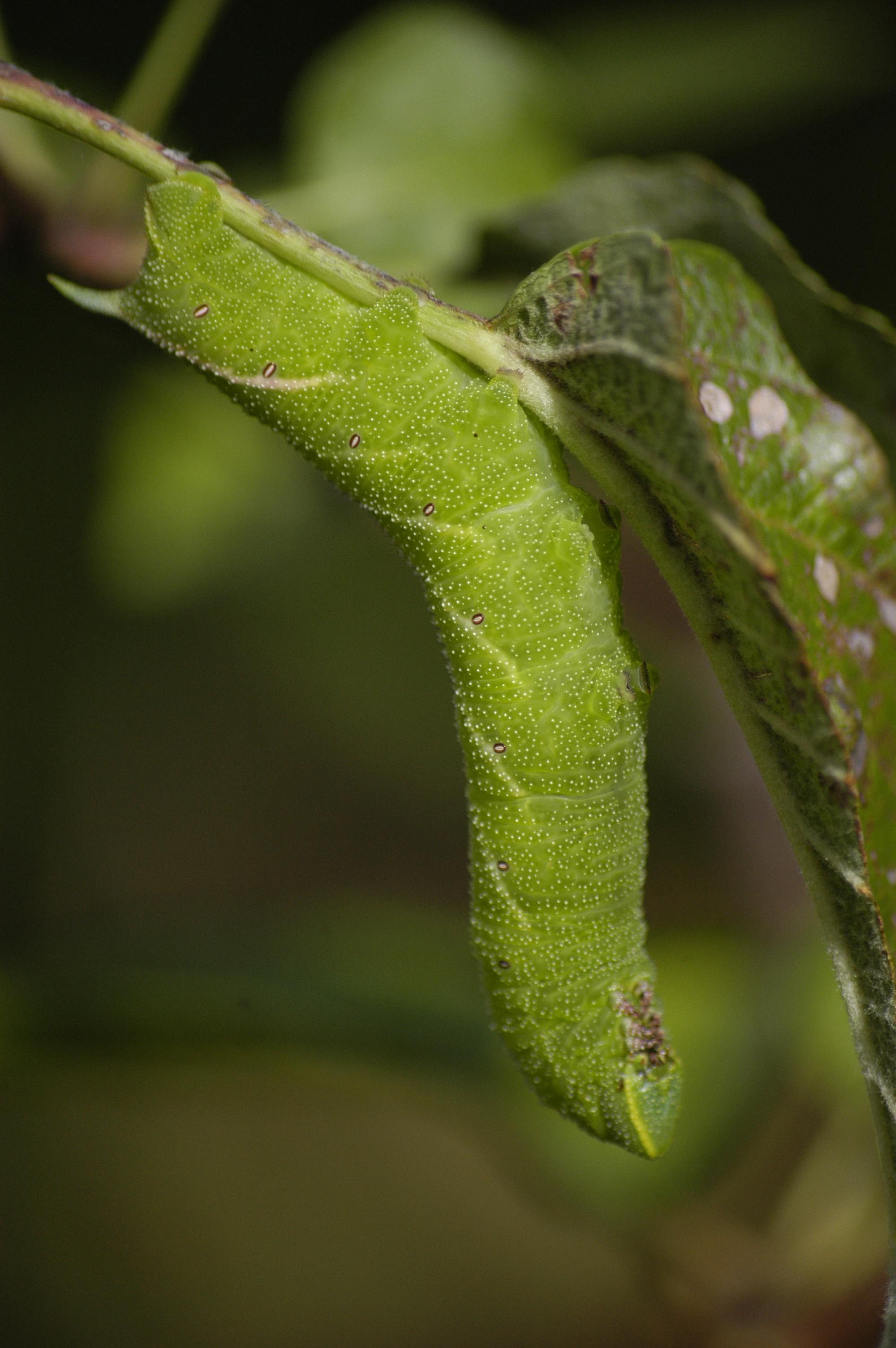 Caterpillar of the Smerinthus ocellatus on an apple tree